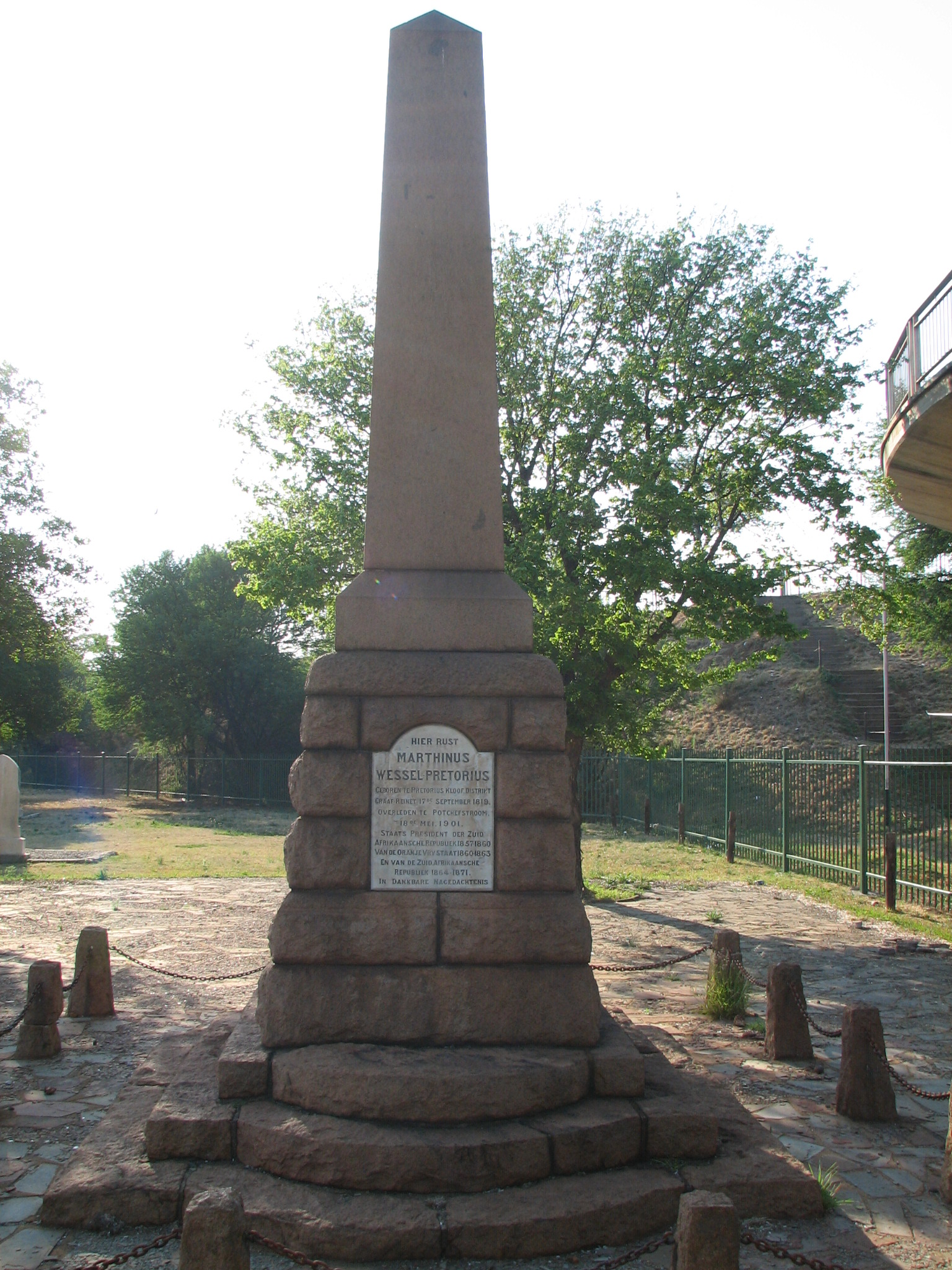 President Marthinus Wessel Pretorius' grave in Potchefstroom, South Africa.